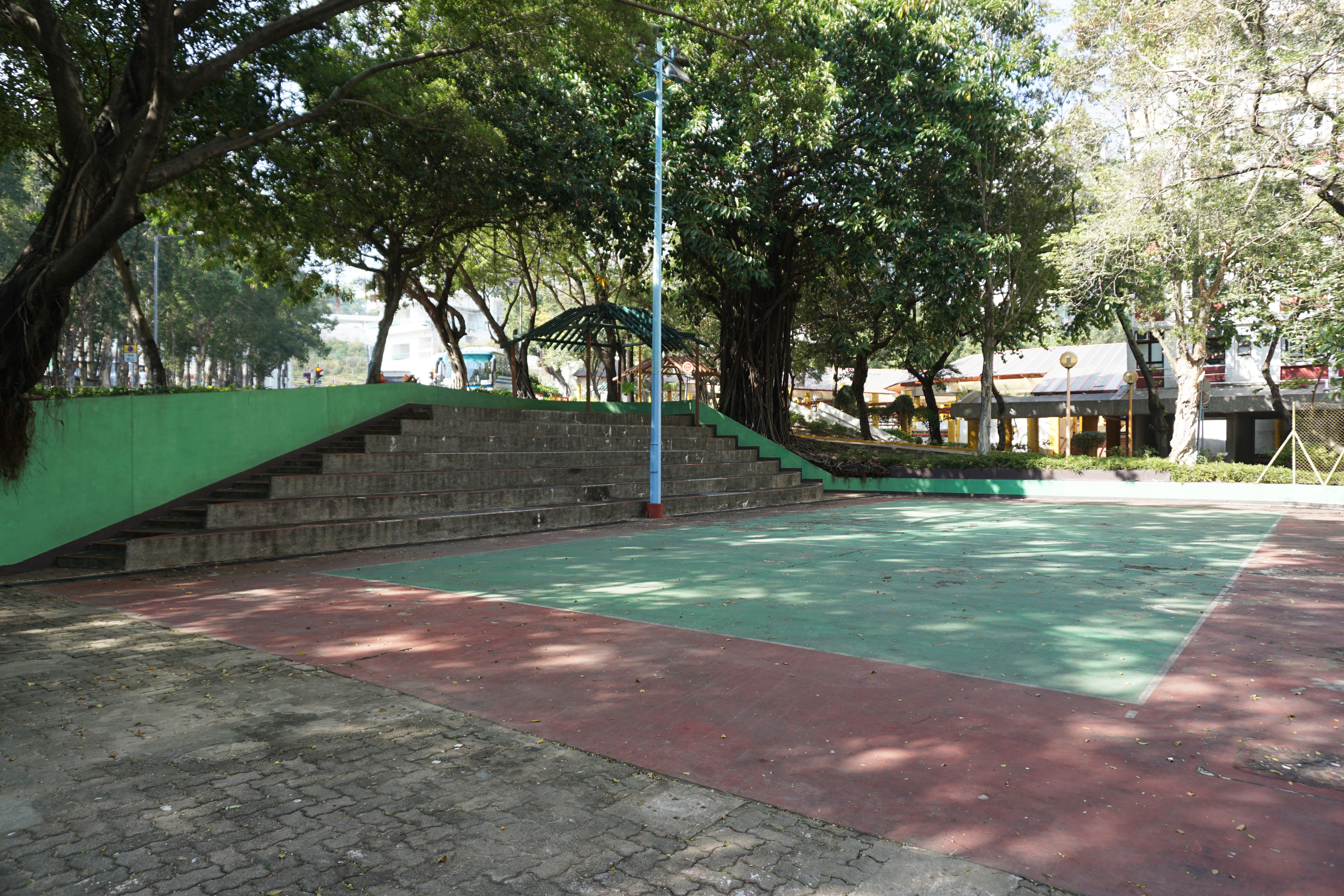 Tung Tau Estate in Wong Tai Sin, Hong Kong.